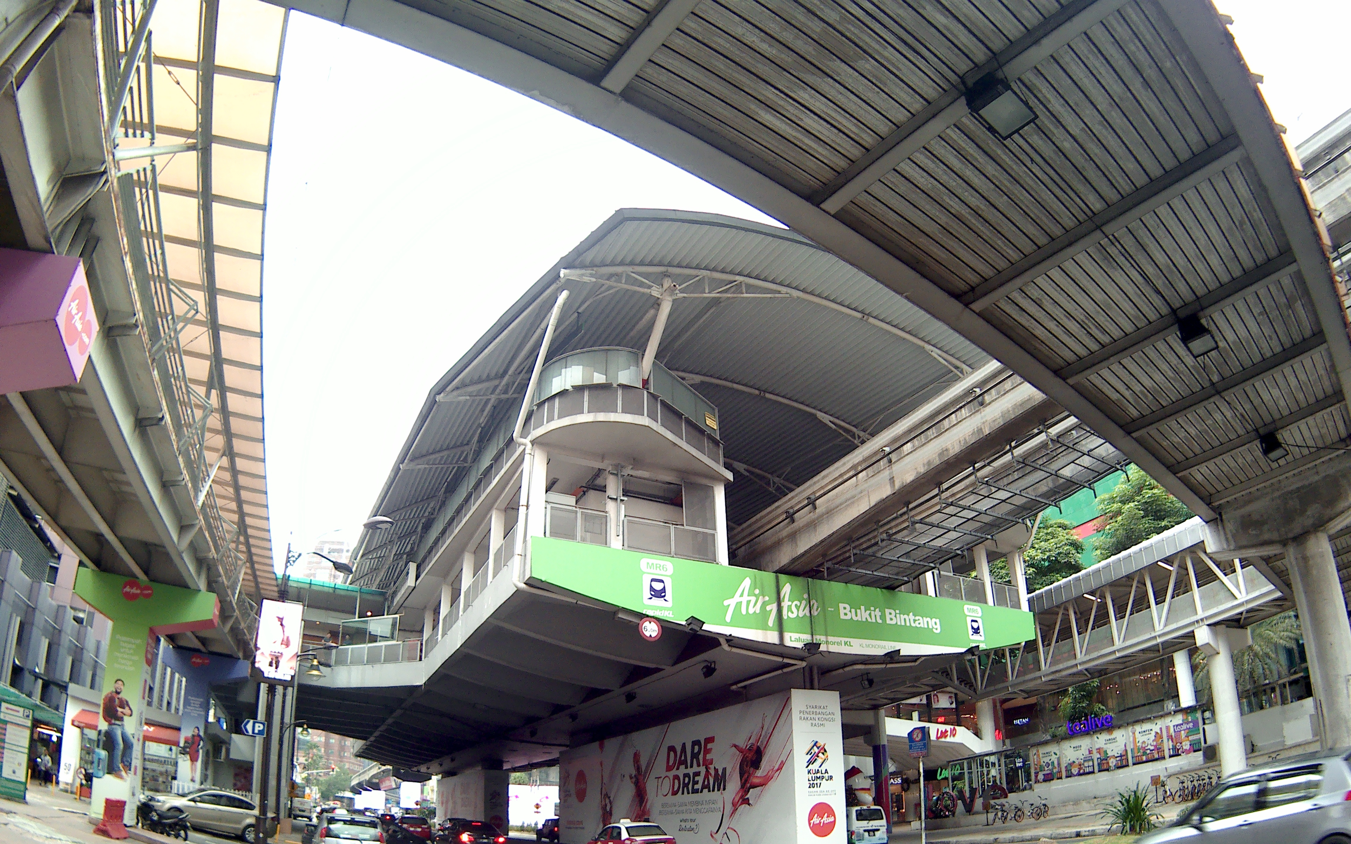 Bukit Bintang Monorail Station outview